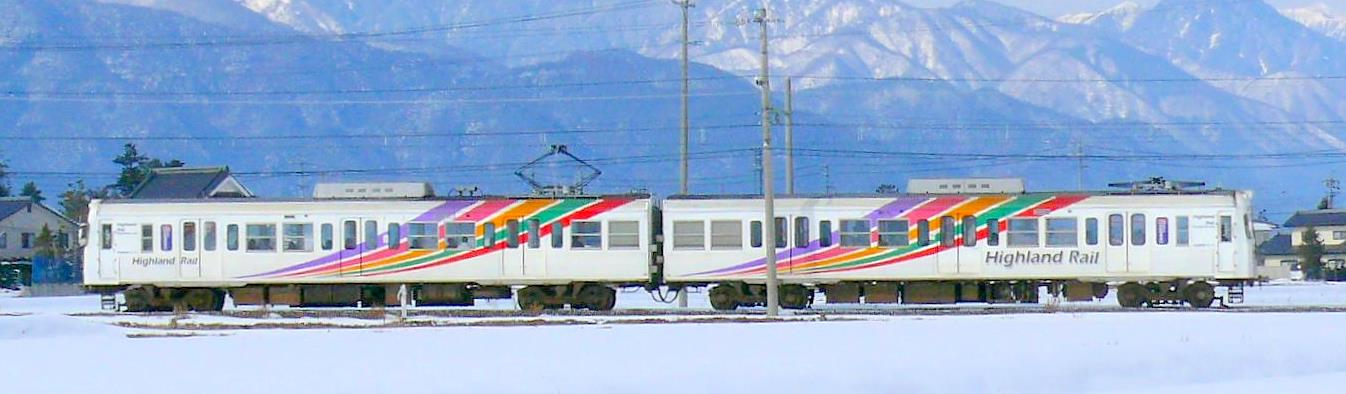 Matsumoto Electric Railway Type 3000（3007-3008）Train(Japan).